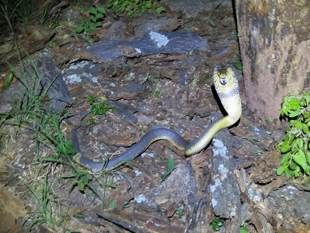 Snouted Cobra, Naja annulifera, photographed in the wild at night.